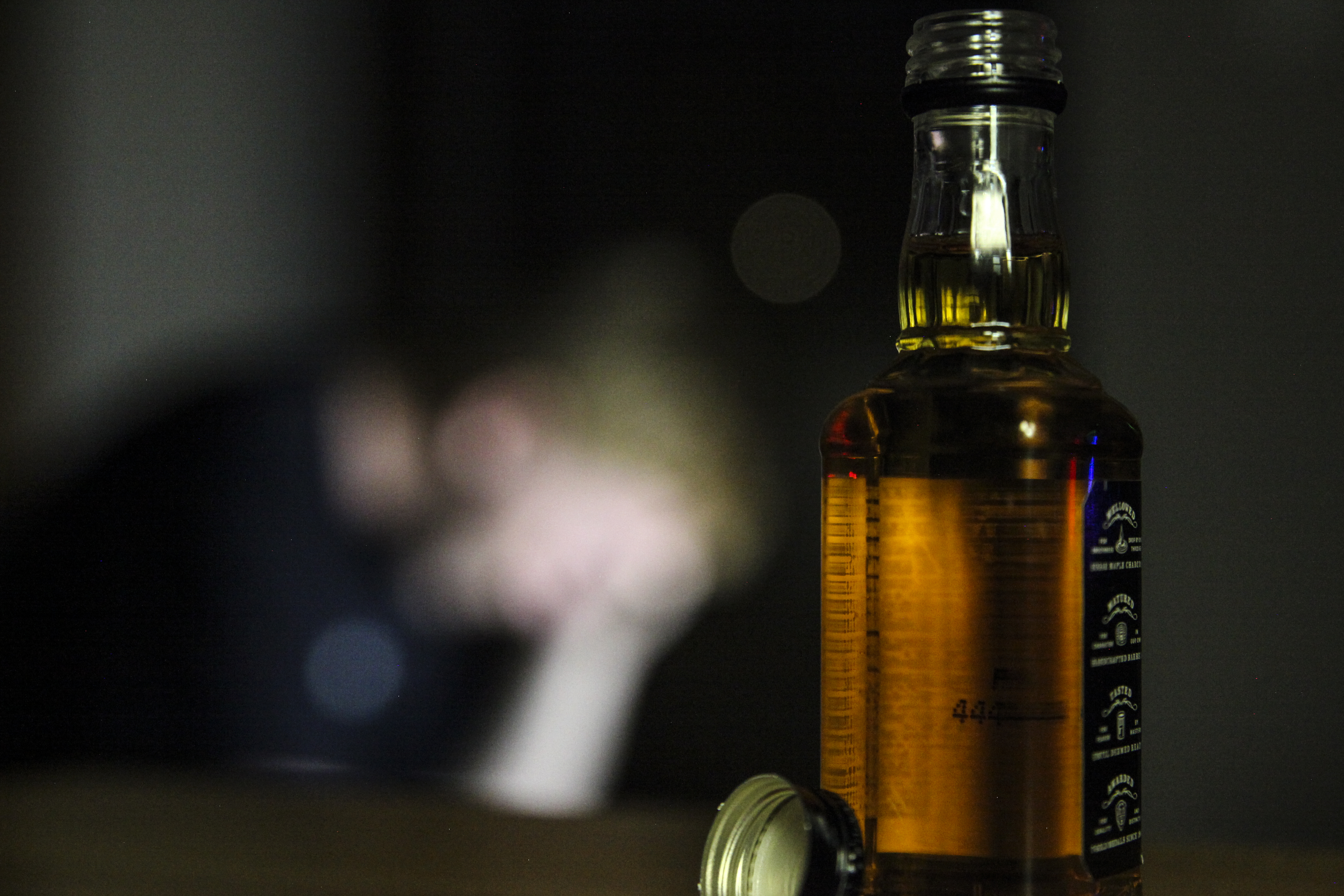 There is a very strict zero-tolerance policy in the Department of Defense regarding substance abuse. There is also a policy of mentorship and leadership, for all ranks of the Marine Corps, developed to provide preventative information to limit abuse and treatment for Marines who have been afflicted by dependence. Unit: II Marine Expeditionary Force